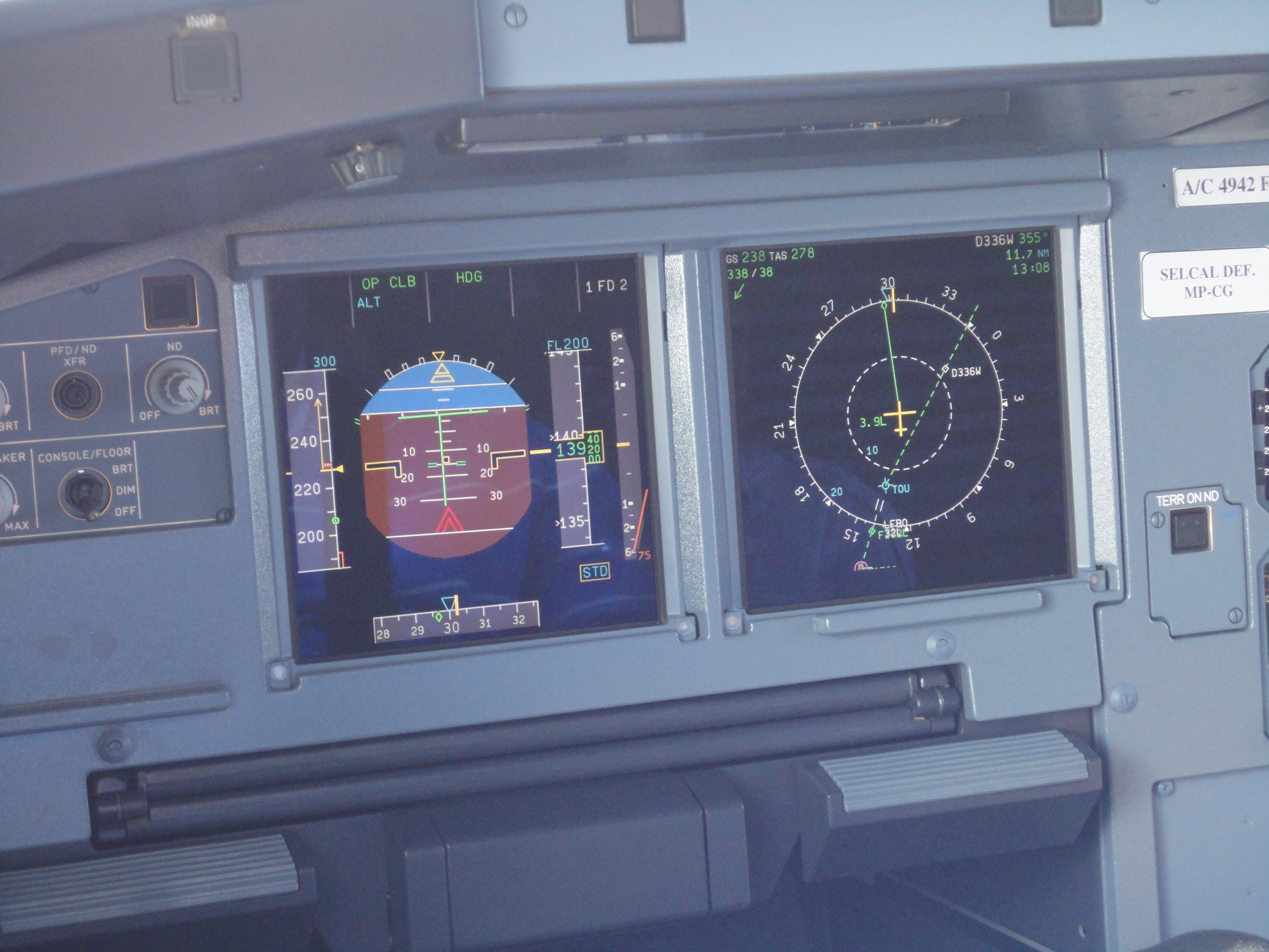 Flight Controls Check